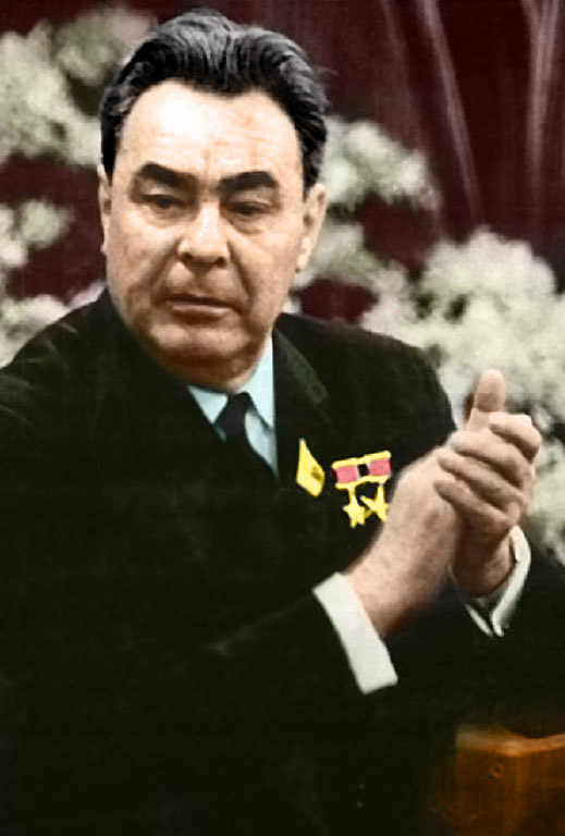 Leonid Brezhnev Portrait